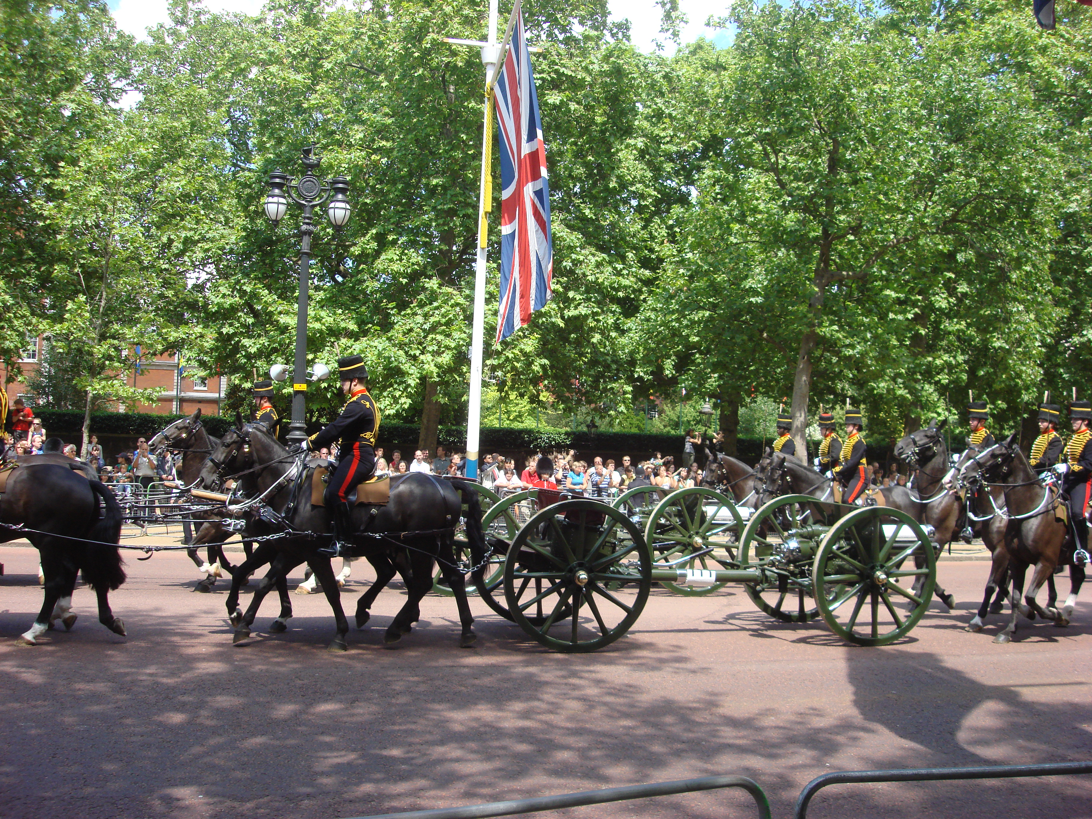 Trooping the Colour 2009